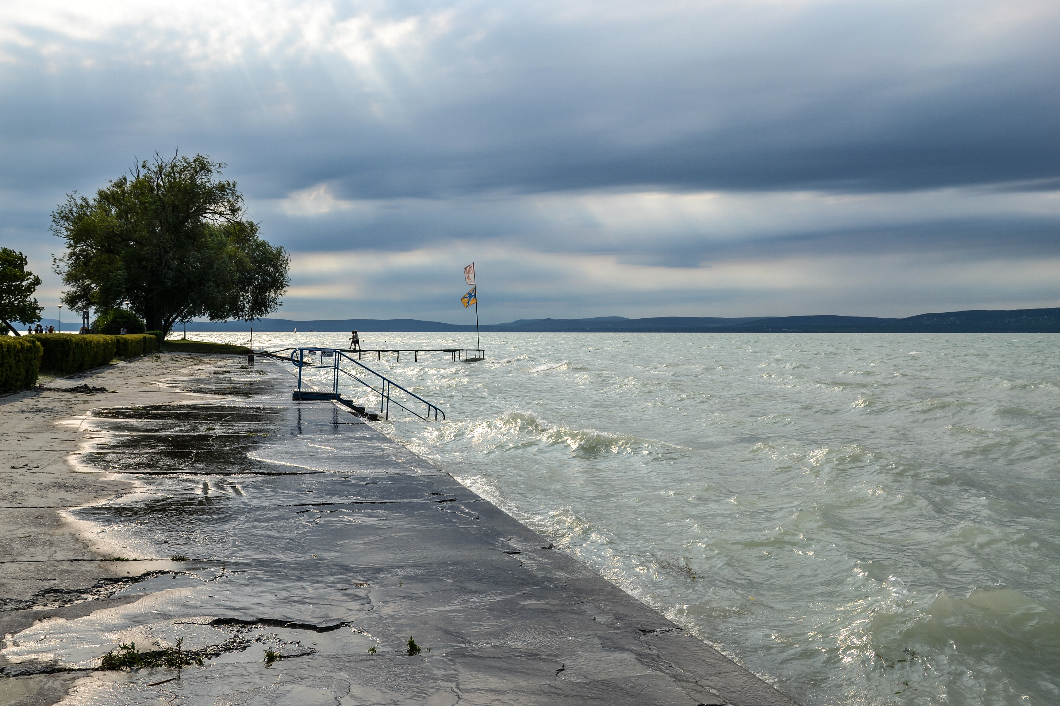 Beach in Balatonföldvár, Hungary